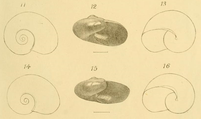 Phenacolimax major (A. Férussac, 1805) (upper three figures) and Phenacolimax stabilei (Lesson, 1880) (lower three figures), Vitrinidae, Gastropoda, Mollusca (from Pollonera 1889, pl.2, figs.11-16)